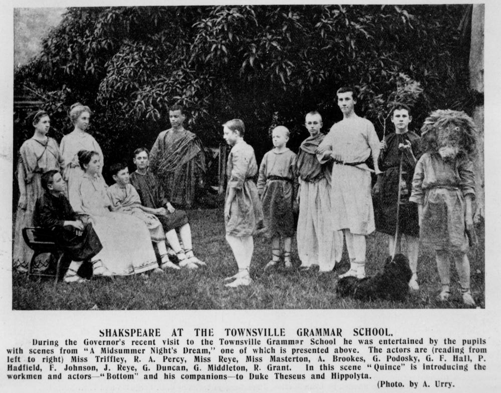 Students from Townsville Grammar School performing A Midsummer Night's Dream, 1907. Caption: Shakespeare at the Townsville Grammar School. During the Governor's recent visit to the Townsville Grammar School he was entertained by the pupils with scenes from 'A Midsummer Night's Dream', one of which is presented above. The actors are (reading from left to right) Miss Triffley, R. A. Percy, Miss Reye, Miss Masterton, A. Brookes, G. Podosky, G. F. Hall, P. Hadfield, F. Johnson, J. Reye, G. Duncan, G. Middleton, R. Grant. In this scene 'Quince' is introducing the workmen and actors - 'Bottom' and his companions - to Duke Theseus and Hippolyta.